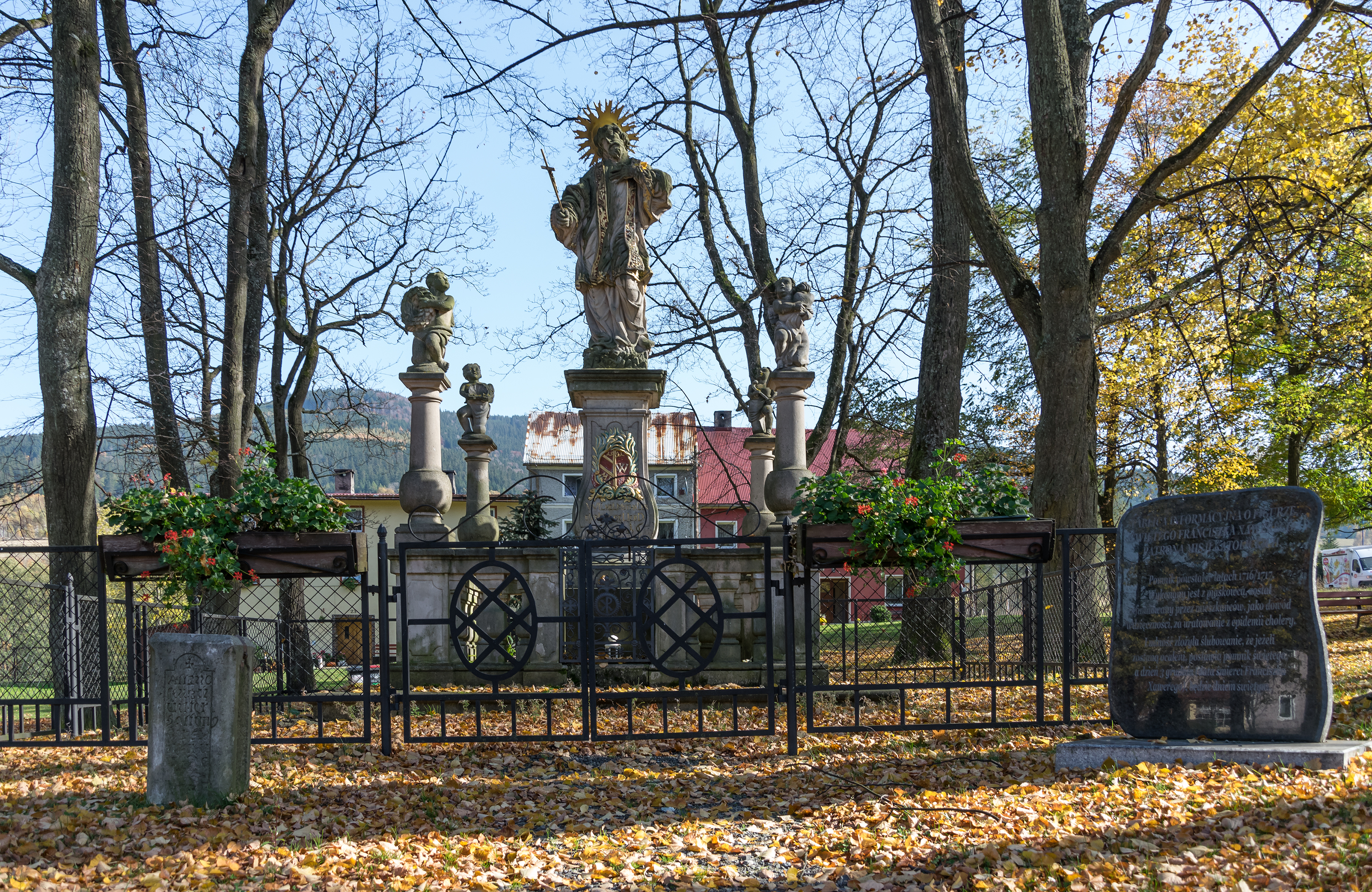 Sculpture of Francis Xavier in Bolesławów